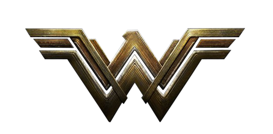 Superman Logo and emblem